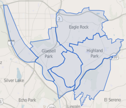 Map of the Northeast area of Los Angeles County, California. Boundary map as drawn by the Los Angeles Times on a CC-by-SA background. Note at bottom right of map on the L.A. Times website noted above says "CC-by-SA" (which gives permission to use the map). There is a link there to which explains the meaning thereof. The base map is credited to